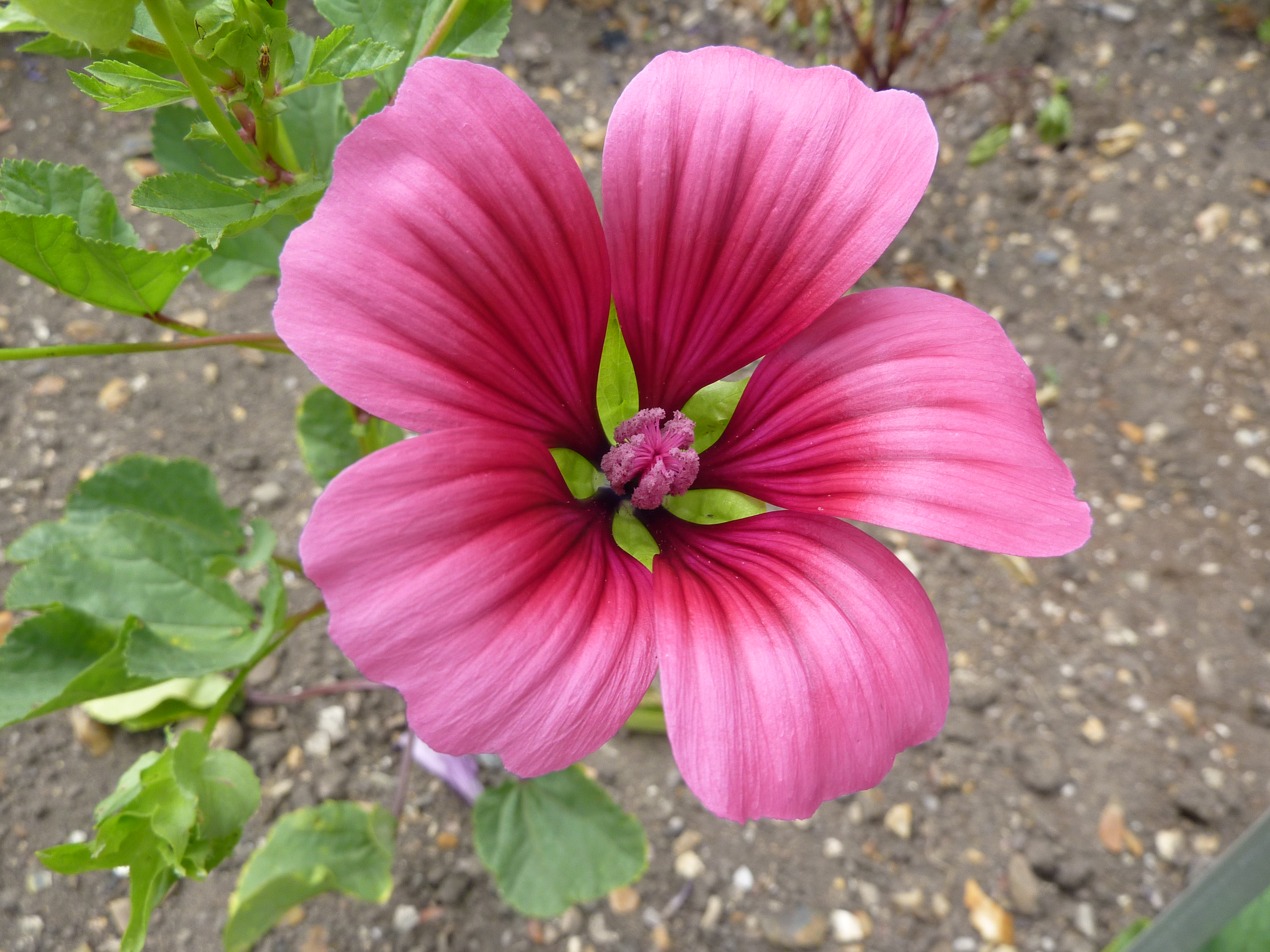 Taken in the Cambridge University Botanic Garden